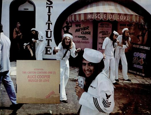 Trade ad for Alice Cooper's Muscle of Love. To better adapt it to his respective Wikipedia article, the ad was cropped and cleaned in a graphics editing program. The original can be viewed at the source below.